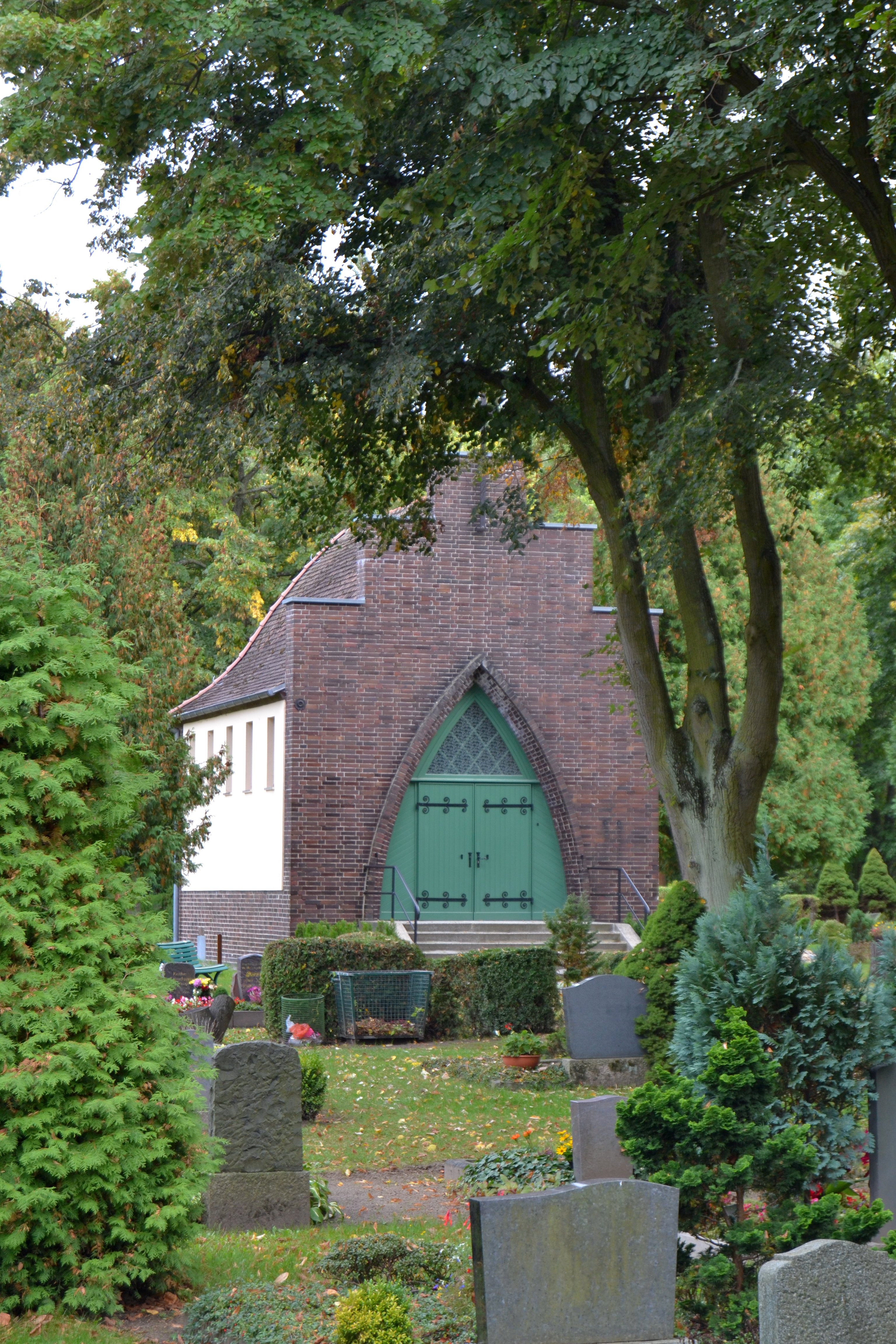 chapel at the cemetery of Fredersdorf, Brandenburg, Germany